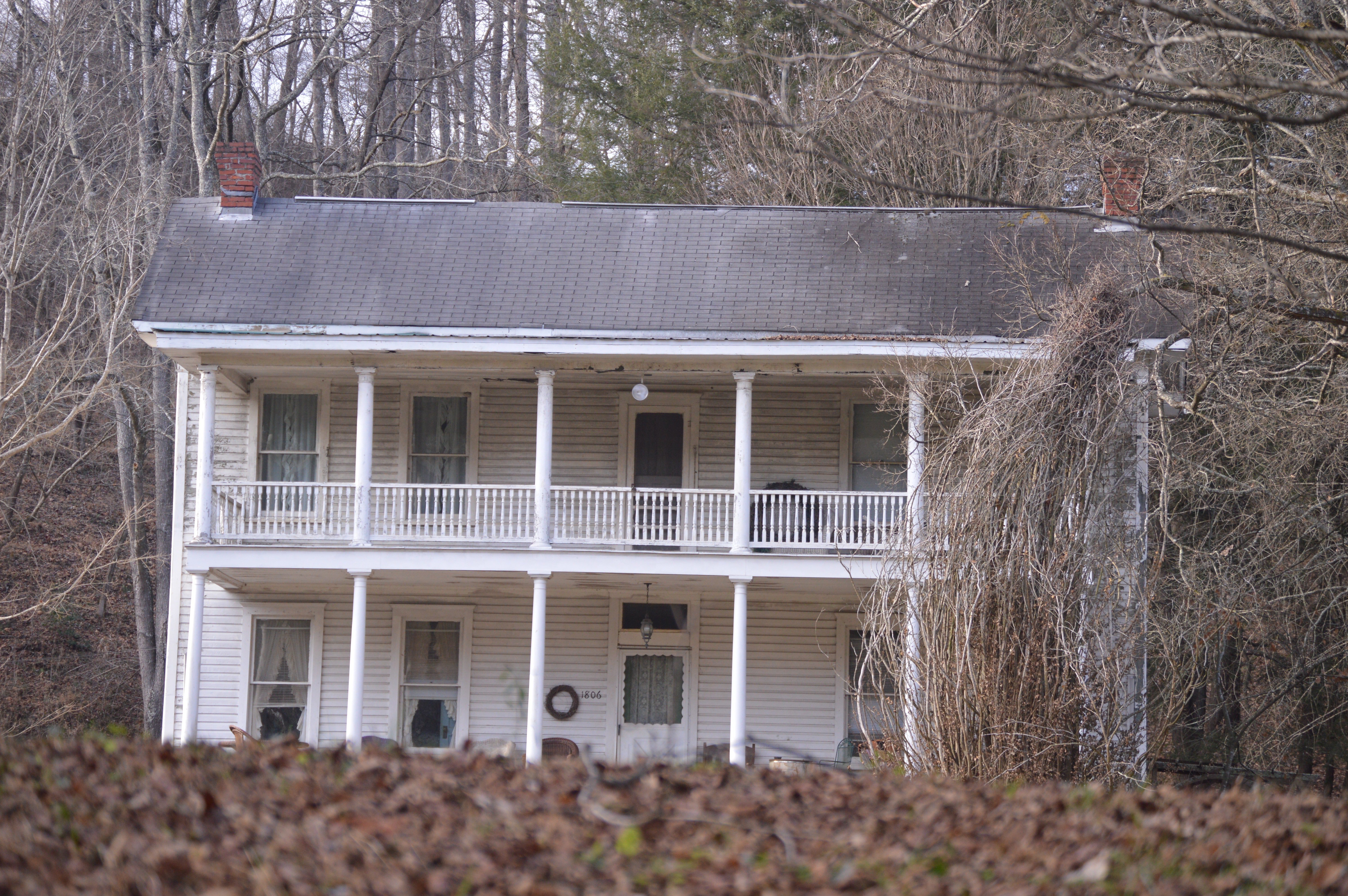 Front of the Holley Hills Estate house, located on Little Coal River Road south of Alum Creek in Lincoln County, West Virginia, United States. Built in 1885, it is listed on the National Register of Historic Places.